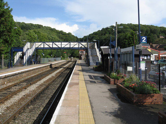 Ledbury station The only passing point between Malvern Wells and Shelwick Junction, near Hereford, Ledbury station has received much community attention. In consequence, flower tubs thrive, paintwork is well-maintained and TV screen information systems are provided. Another example of community pressure is the large garden shed visible on the right: the part-time booking office! Railway conoisseurs will note the original steam-era footbridge, complete with holes in the right-most section to enable the signalman to see the signals once situated just behind the photographer.